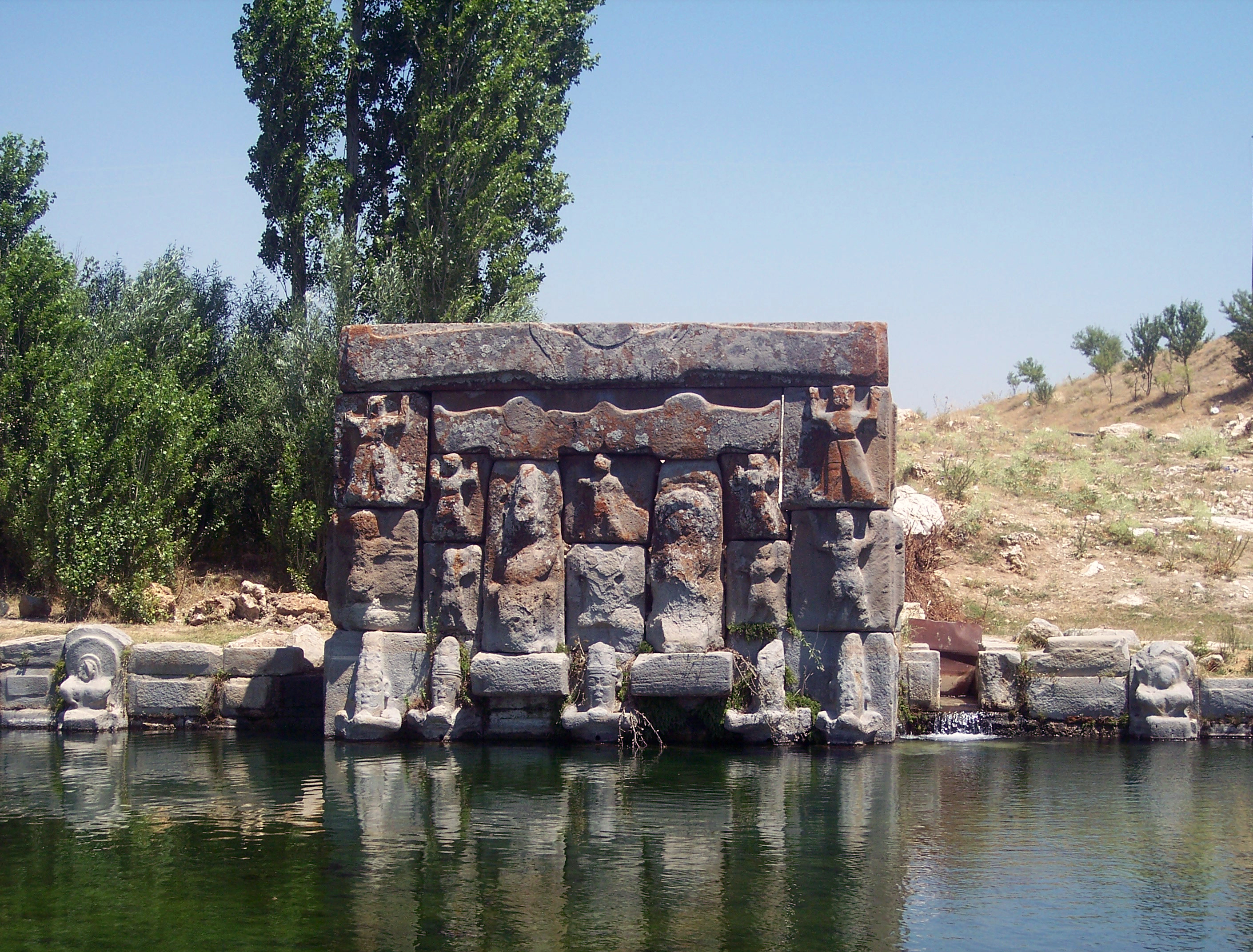 Eflatunpınar, a Hittite site found in modern Beyşehir district of Konya/Turkey.